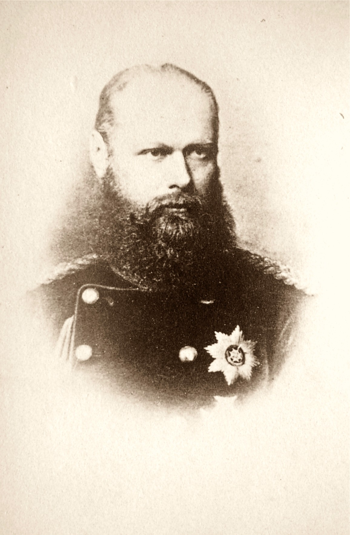 König Karl von Württemberg